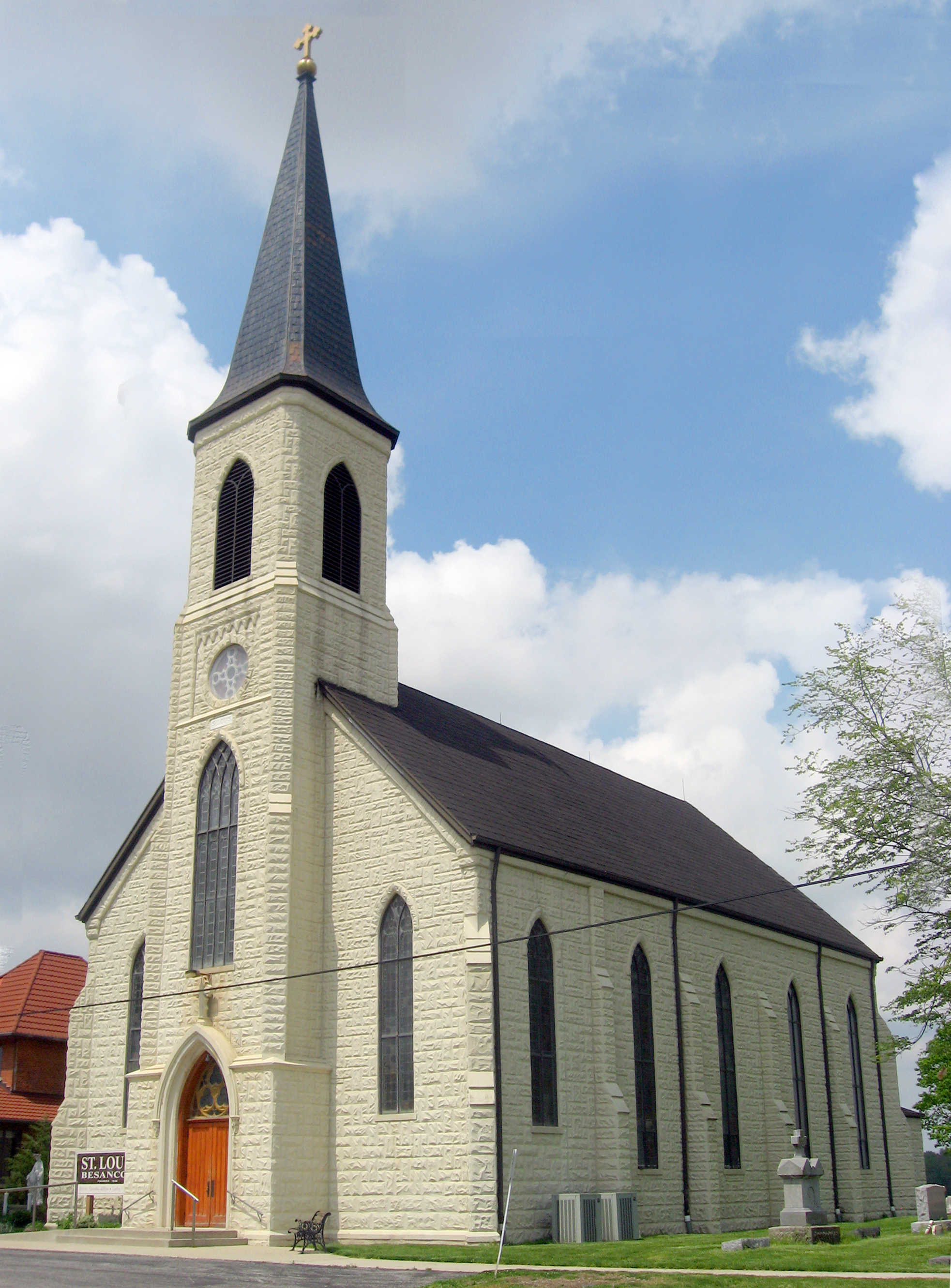 Front and eastern side of St. Louis' Catholic Church, located at 15535 E. Lincoln Highway east of New Haven in Jefferson Township, Allen County, Indiana, United States. Built in 1870, it is part of the St. Louis, Besancon, Historic District, a historic district that is listed on the National Register of Historic Places.